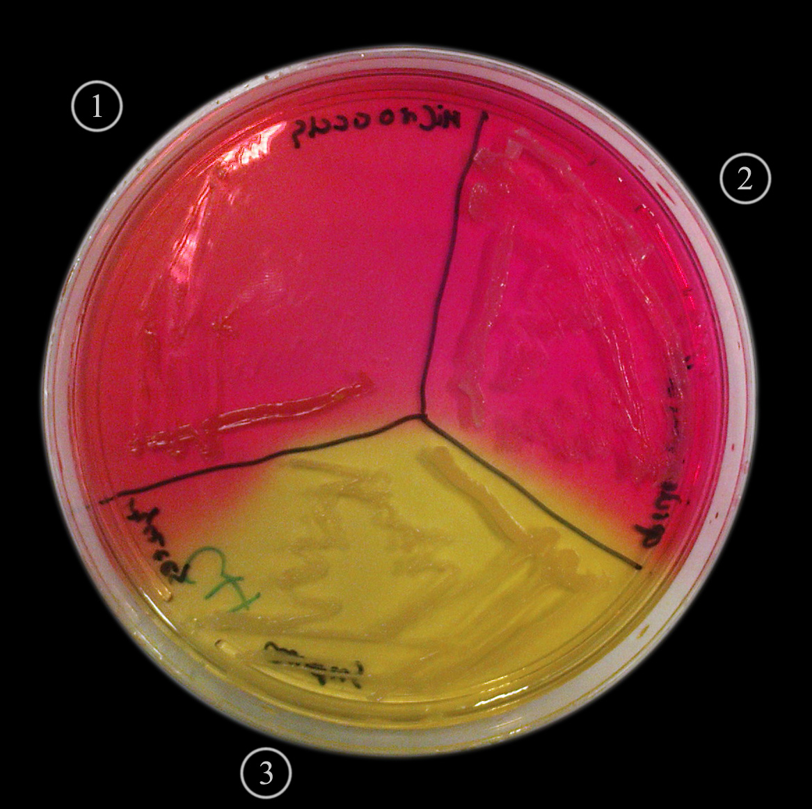 After 24 hours, this inoculated Mannitol Salt Agar (MSA) culture plate cultivated colonial growth of: 1. Micrococcus sp. 2. S. epidermidis 3. S. aureus